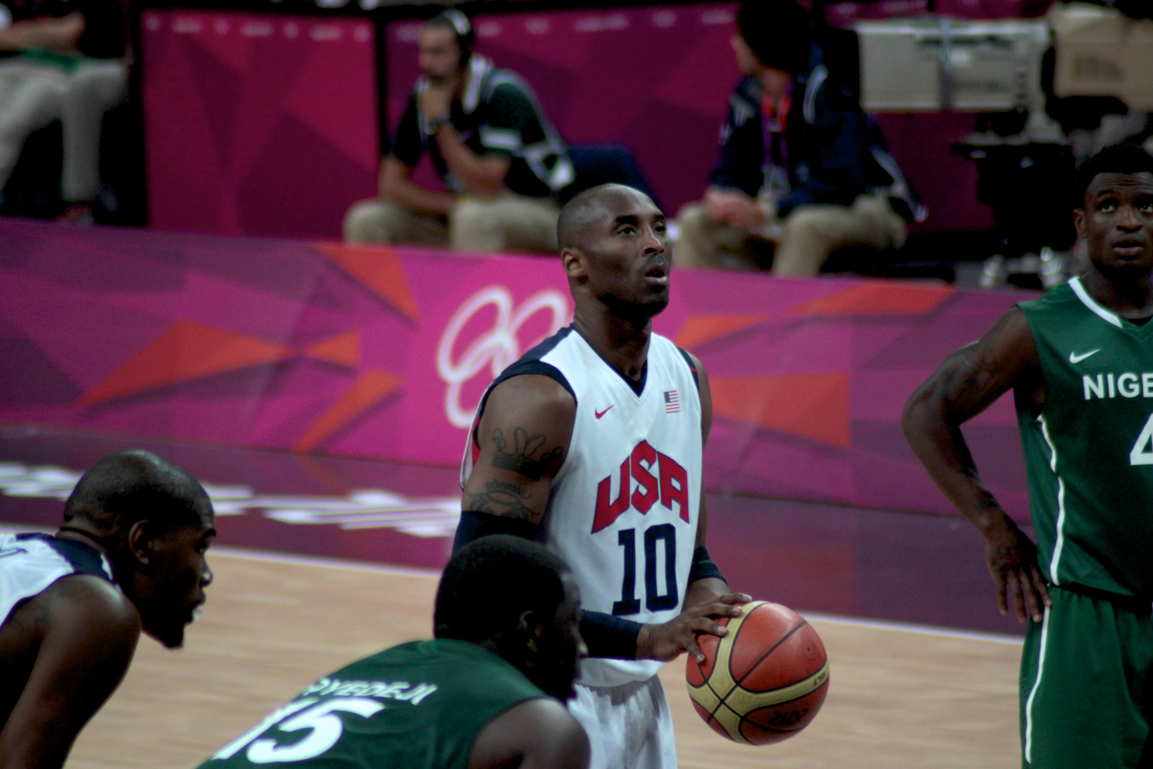 London 2012, The Olympic Games